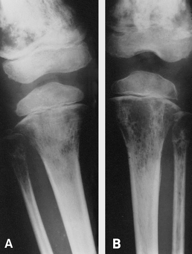 ADRENAL GLAND: WIDELY METASTATIC NEUROBLASTOMA IN A 4-YEAR-OLD BOY The bony metastases seen here (A and B) involve predominantly the metaphyses of upper tibia and lower femur on both sides.